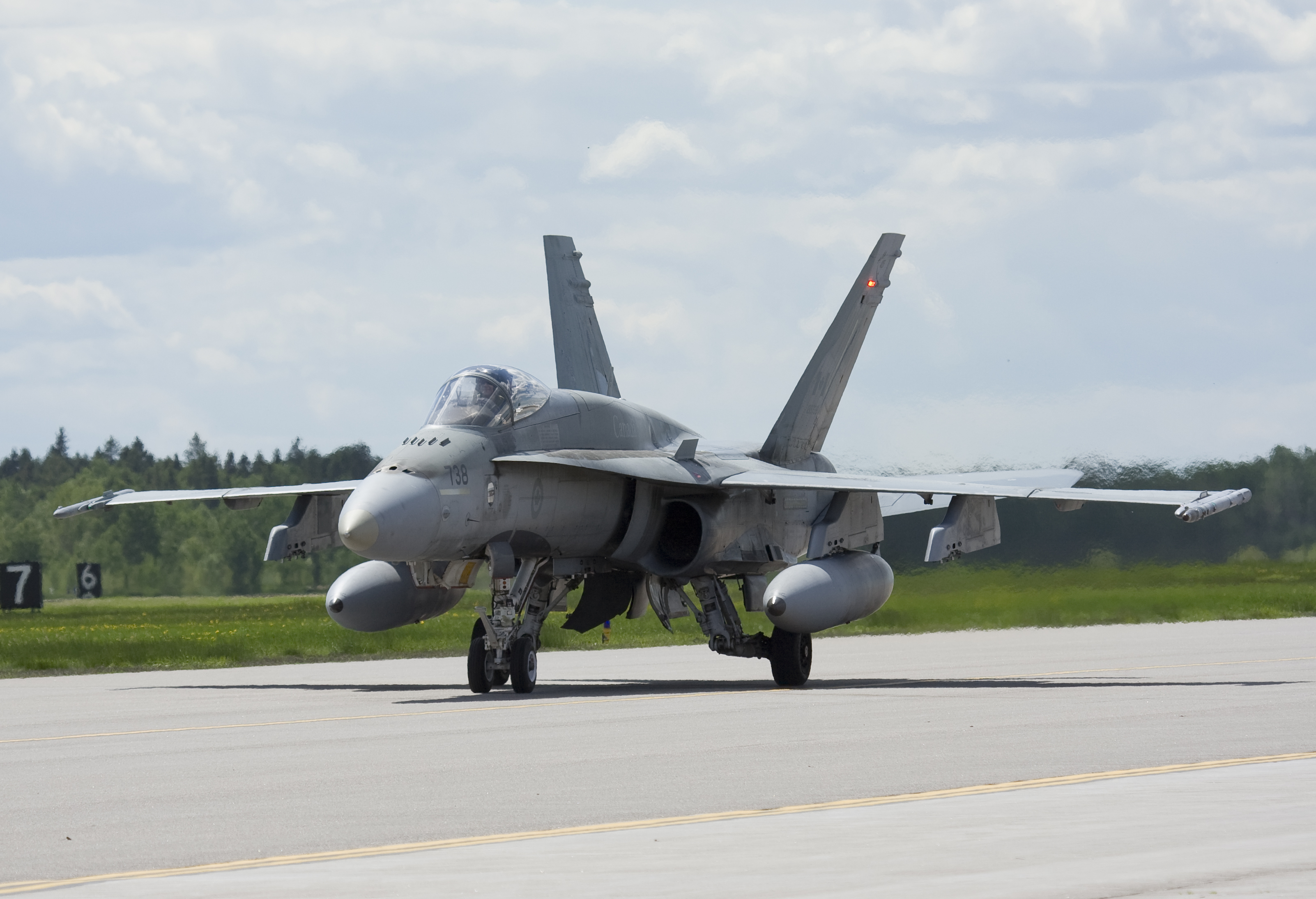 CF-188A Hornet at the Bagotville Airshow, which has undergone phase two of the Incremental Modernization Project, note the Interogator Friend or Foe (IFF) antennas on the nose.